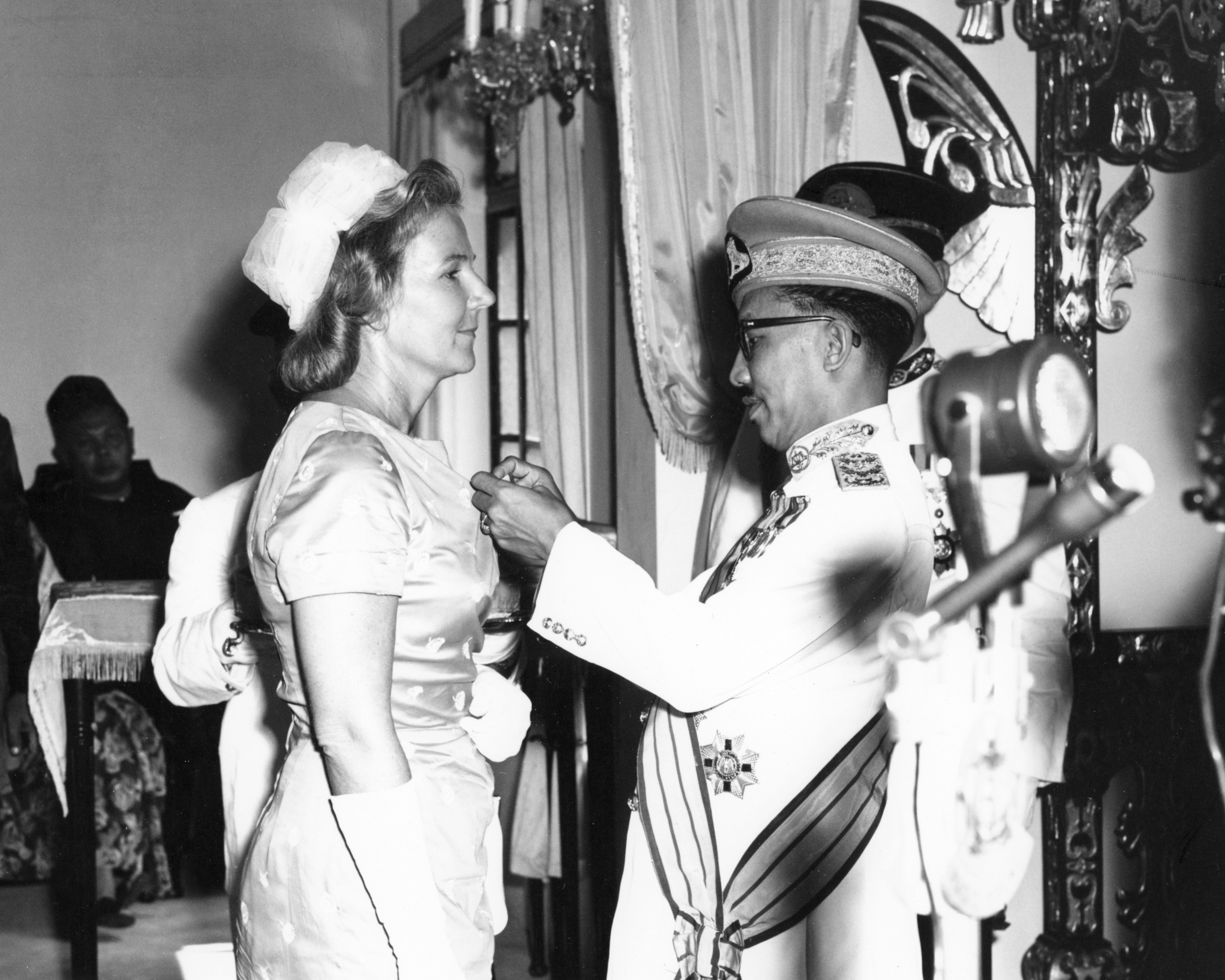 His Highness the Brunei Sultan Omar Ali Saifuddin held an investiture at the Istana Darul Hana on 24 November 1960 at which recipients of His Highness's 44th birthday honours on 23rd September 1960 were awarded their orders and decorations. The investiture was held in the Pesiban Agong and was attended by the British High Commissioner, Mr. D.C. White, members of the Royal Family, Executive and Legislative councilors, heads of departments and senior officials. Among those who were decorated was an English lady, Mrs. M. E. Lloyd-dolbey, a long-standing resident of the State who had on several occasions in the past performed the duties of Lady-in-Waiting to Her Highness the Raja Isteri. His Highness the Sultan pinning the Sultan Omar Ali Saifuddin medal on Mrs. M. E. Lloyd-Dolbey.